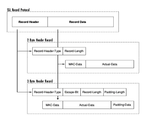 schema